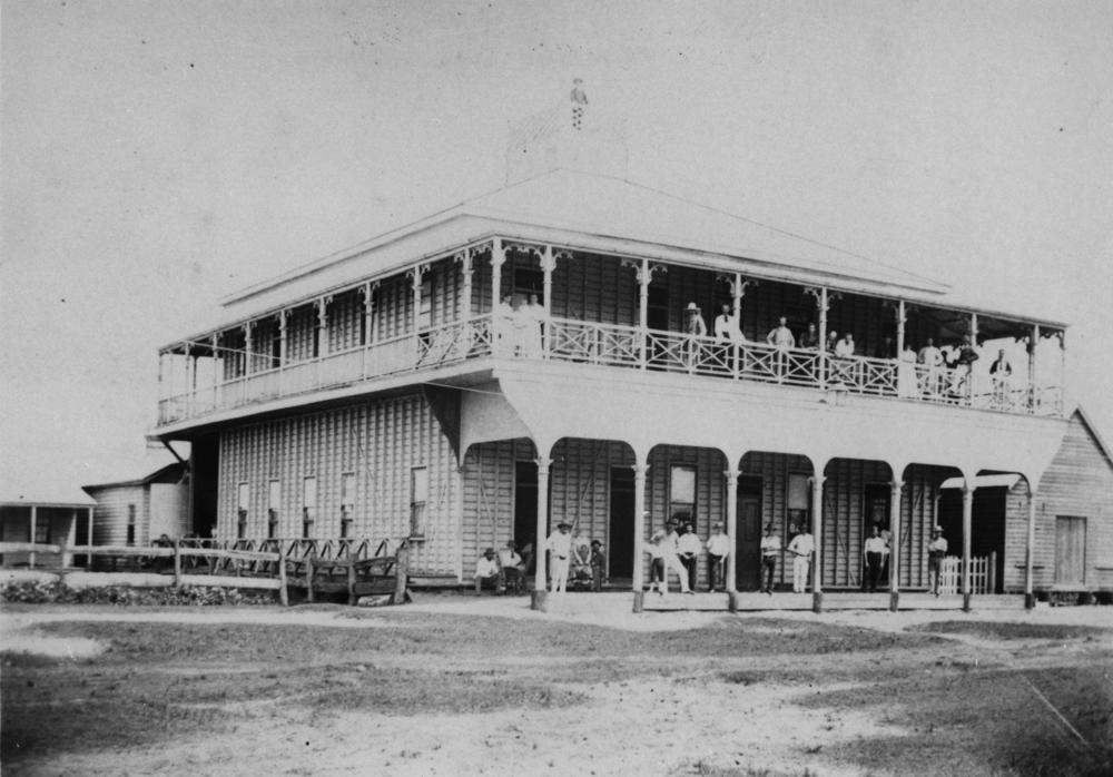 Cairns Hotel in 1886. Patrons at the Cairns Hotel (now known as Hides Hotel) photographed on the upper verandah and out the front of the building.